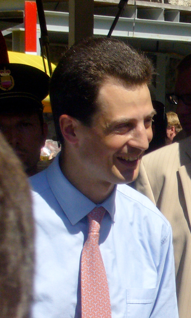 His Serene Highness The Hereditary Prince of Liechtenstein meeting the people of Liechtenstein on the Liechtenstein national holiday.